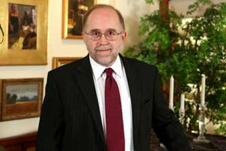 Ronald Lewis Schlicher. U.S. diplomat. Principal Deputy Assistant Coordinator for Counterterrorism. Former U.S. Ambassador to Cyprus.